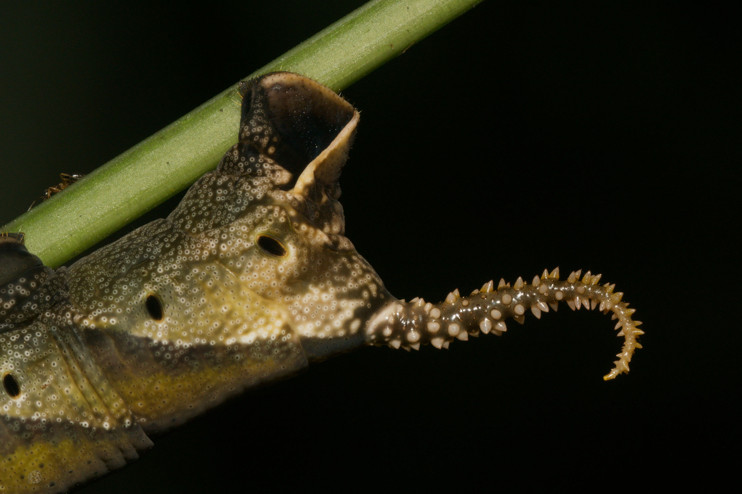 Death's-head hawkmoth refers to any one of the three moth species of the genus Acherontia (Acherontia atropos, Acherontia styx and Acherontia lachesis). The former species is found primarily in Europe, the latter two are Asian. These moths are easily distinguishable by the vaguely human skull-shaped pattern of markings on the thorax. All three species are fairly similar in size, coloration, and life cycle. The larvae are stout, reaching 120–130 mm, with a prominent tail horn. All three species have three larval color forms: typically, green, brown, and yellow. Larvae do not move much, and will click their mandibles or even bite if threatened. When mature, they burrow underground and excavate a small chamber where they pupate. (ID: IndianMoths)